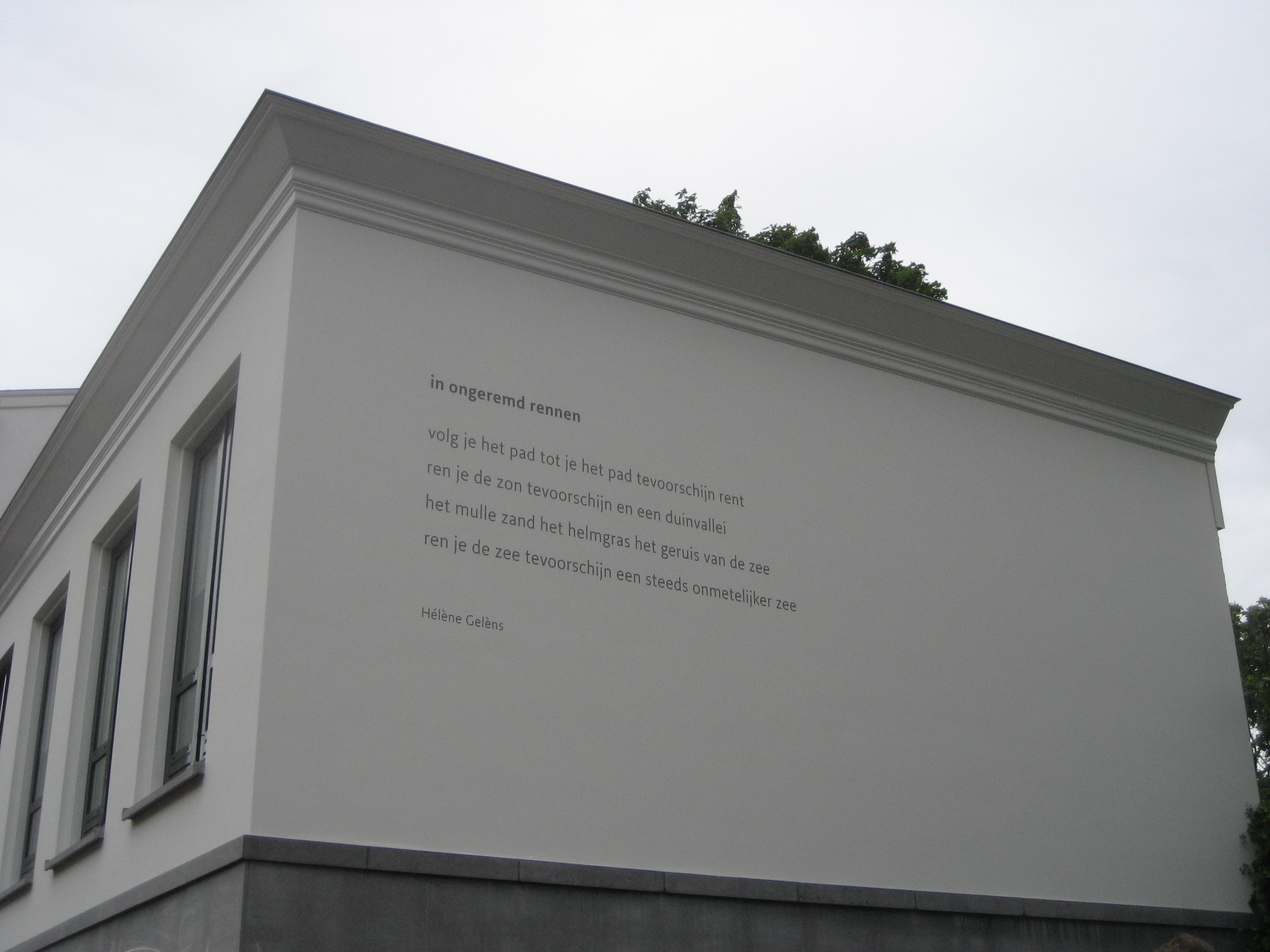 Wall poem in ongeremd rennen by Hélène Gelèns. Nieuwe Schoolstraat, Den Haag, the Netherlands.